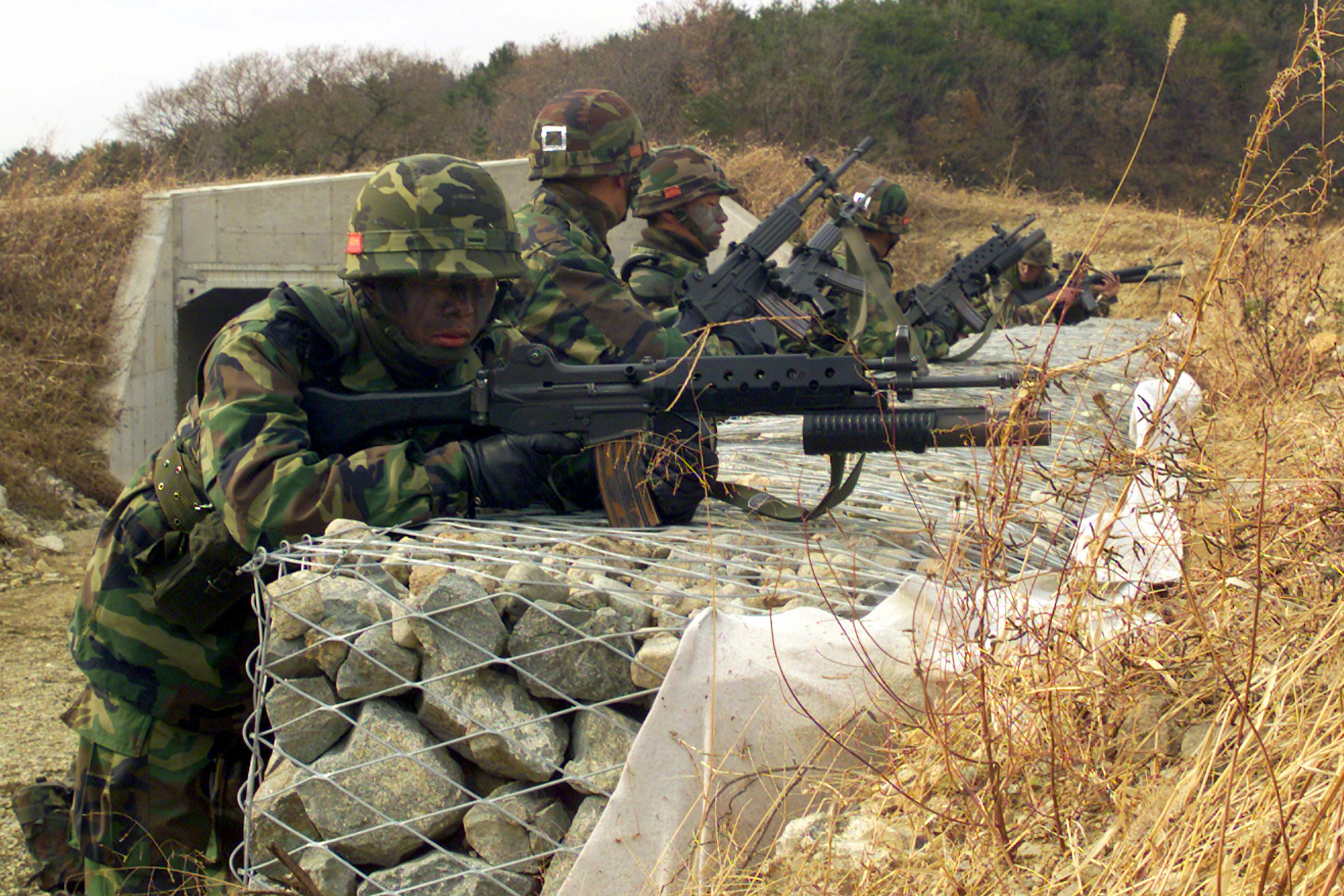 Republic of Korea (ROK) Marines armed with 5.56mm K2 assault rifles set up frontal security behind a block wall during the KOREAn Incremental Training Program (KITP) at Camp Mu Juk, Korea. KITP is a joint training exercise with U.S. Marines and ROK Marines.